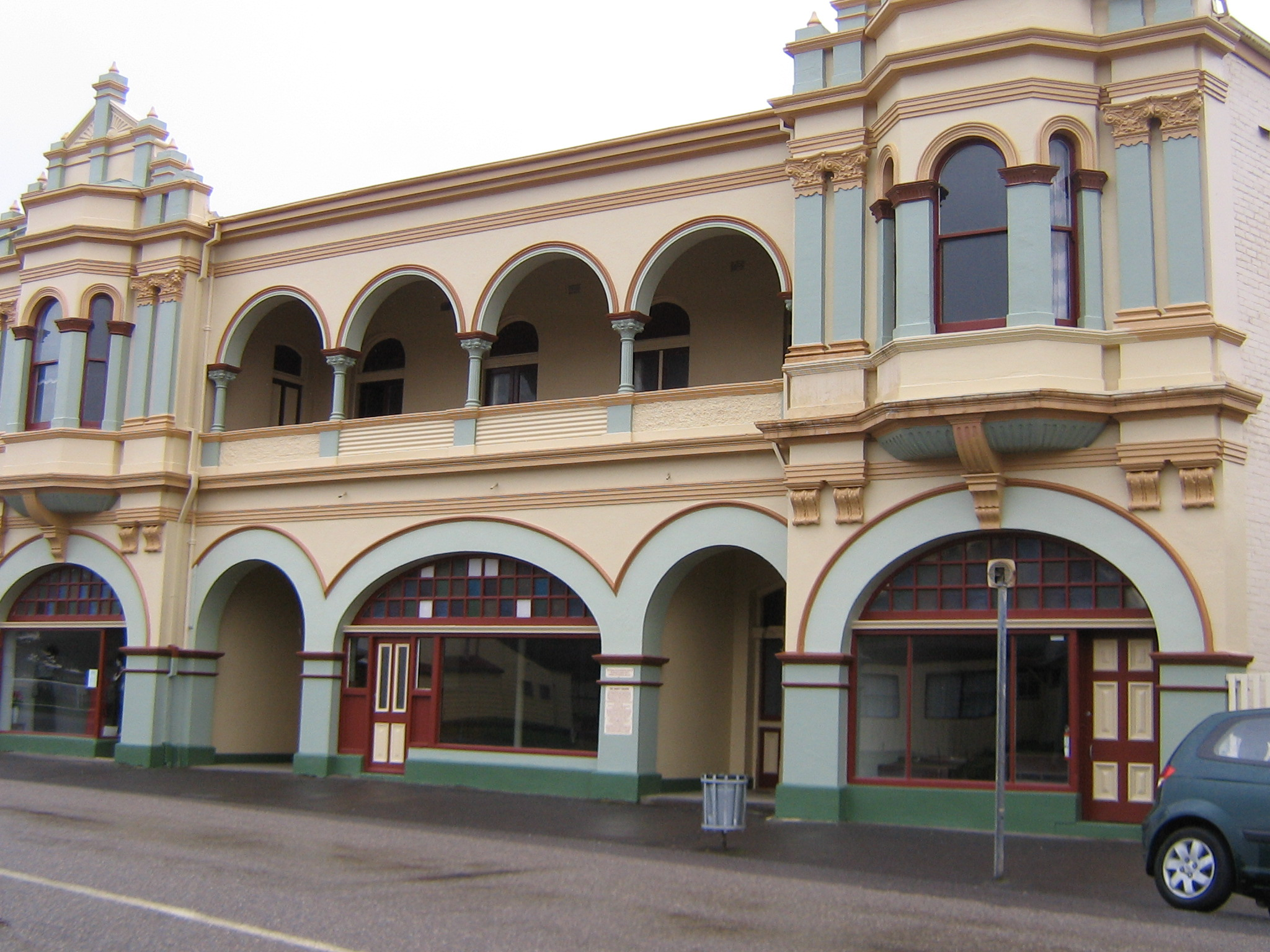 The former Gaiety Theatre in Zeehan, Tasmania is now part of the museum and was being renovated in 2006